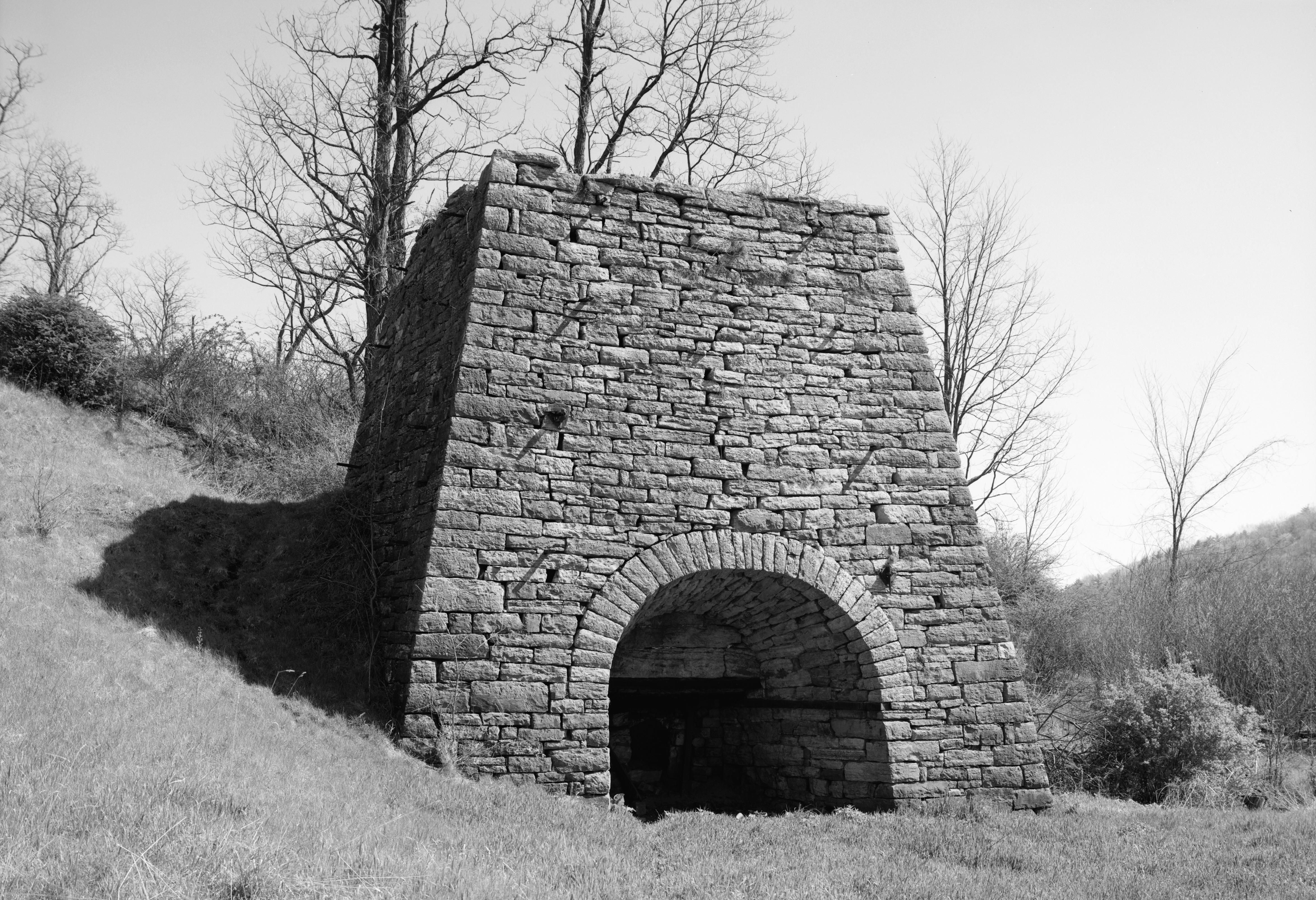 Front of a blast furnace at the Huntingdon Furnace complex, located along Township Road 31106 northwest of Franklinville in Franklin Township, Huntingdon County, Pennsylvania, United States. Built in 1796, the complex is listed as a historic district on the National Register of Historic Places.